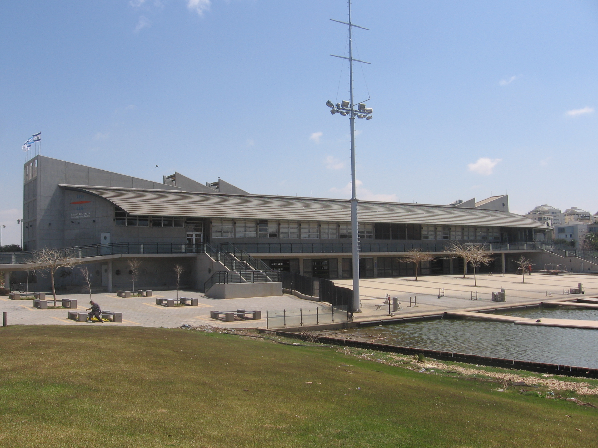 Daniel Amichai Rowing Center in Tel Aviv.